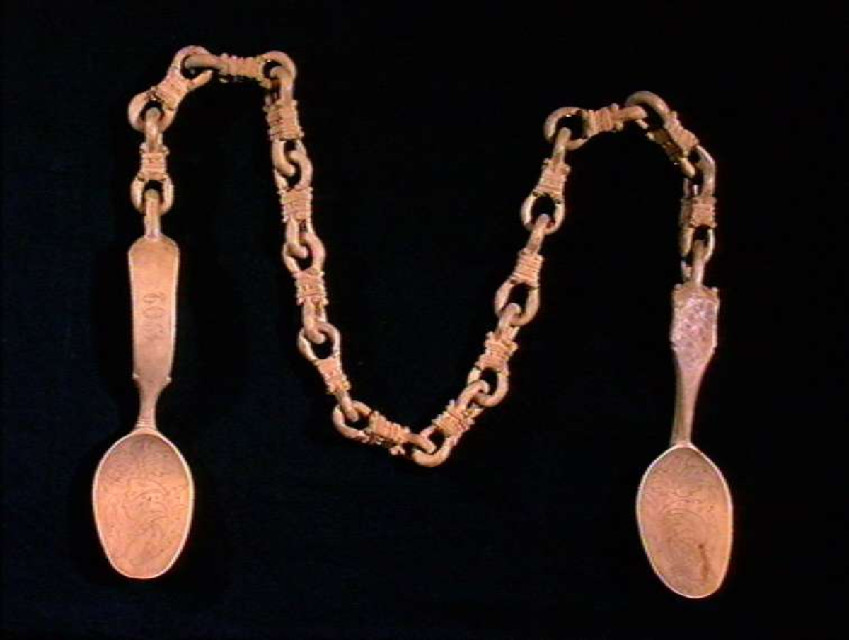 Brudeskjeer fra Kvinesdal i Vest-Agder, skåret i bjørk og datert 1902. Foto Anne-Lise Reinsfelt / Norsk Folkemuseum, NF.1921-2037.